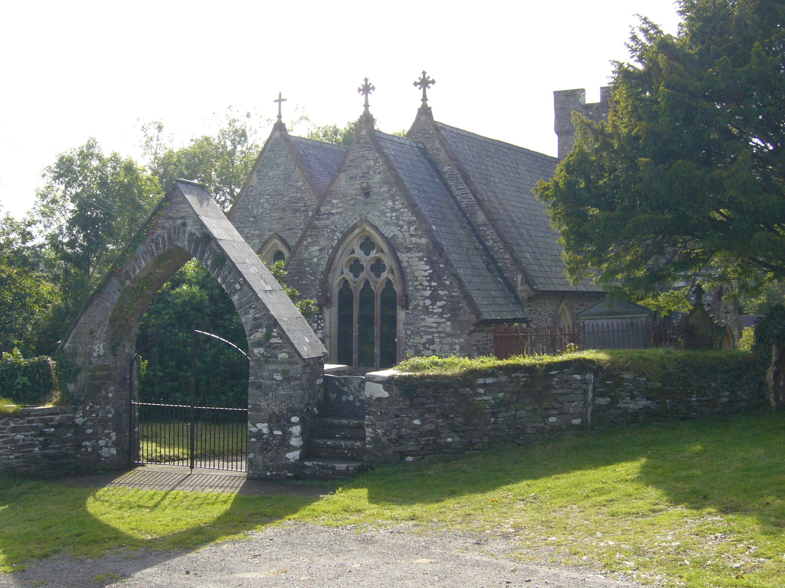 Why the stile? This is the church of St Clydey. At several of the Anglican churches (Yr Eglwys yng Nghymru) in this area we find a stile immediately beside the gates. Why? Was there a tradition that the gates were only opened for special occasions such as weddings and funerals?